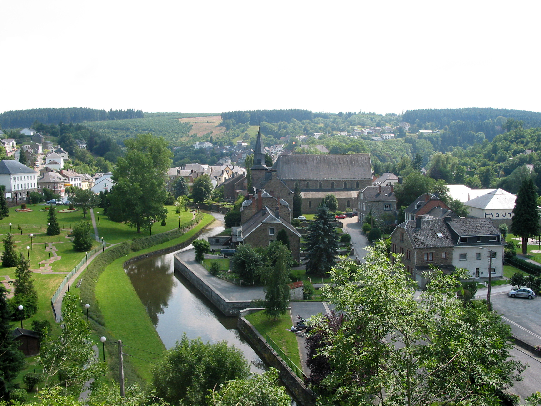 Houffalize (Belgium), overview on the city.